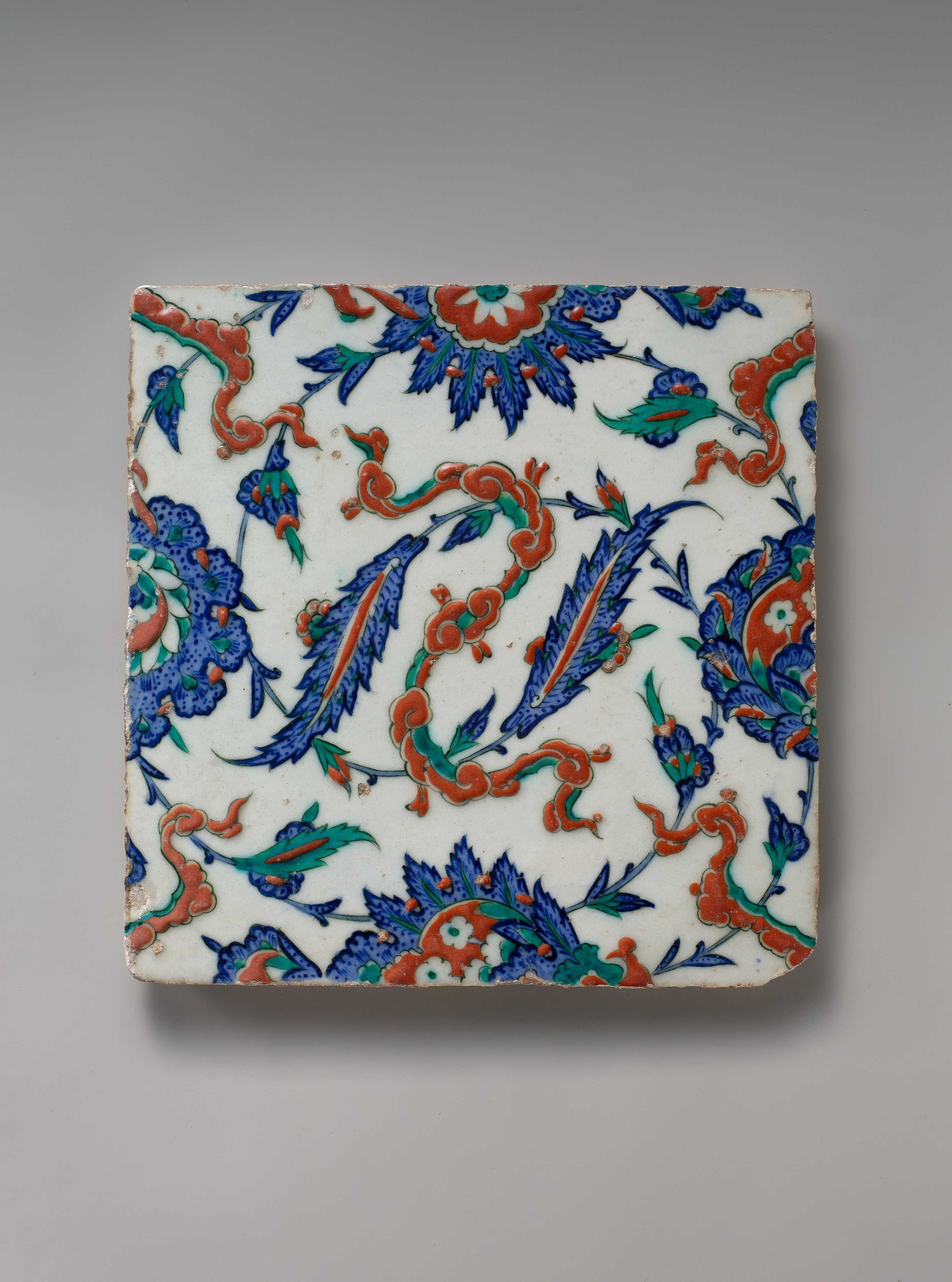 Tile; Ceramics-Tiles